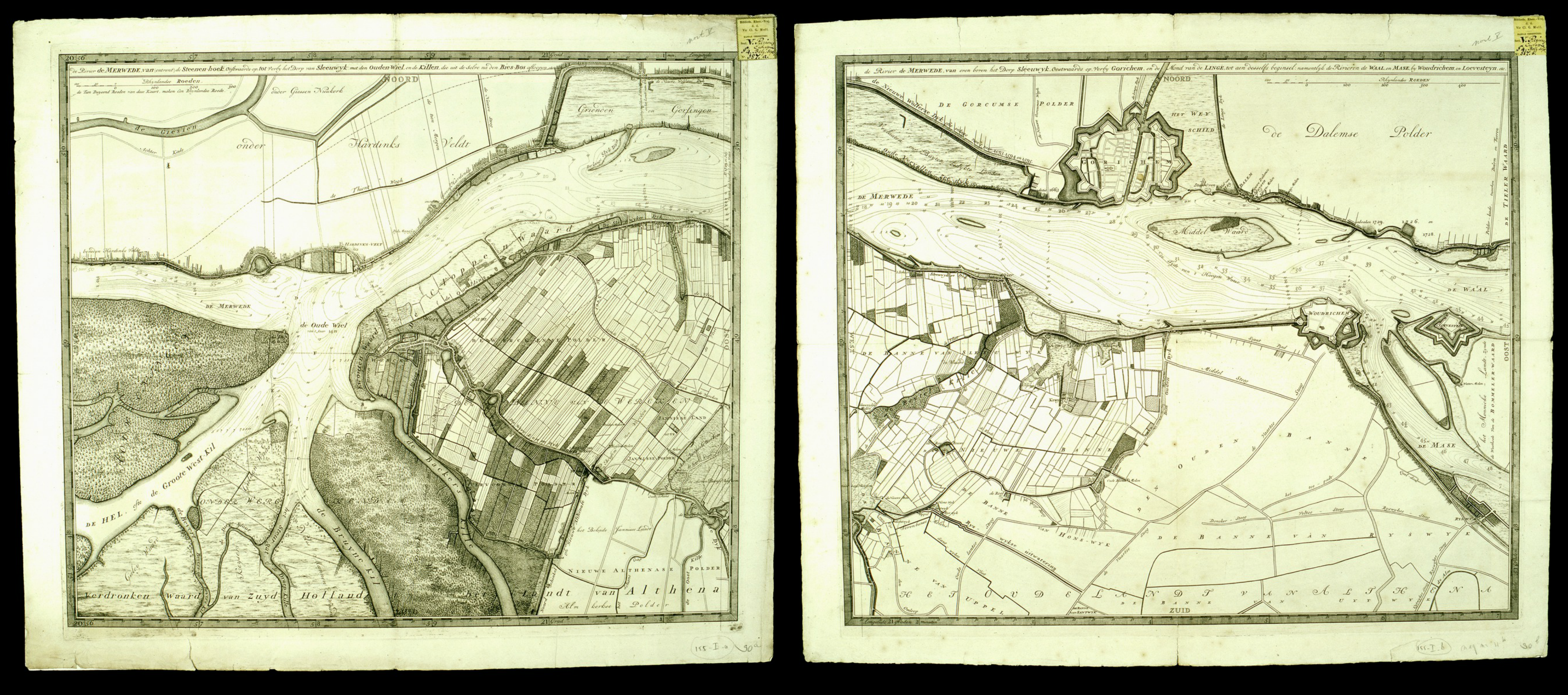 The 1729-30 map of the Merwede River in the Netherlands, credited by the Encyclopædia Britannica, 11th ed.'s "Map" article as the first full-scale use of isobath lines.